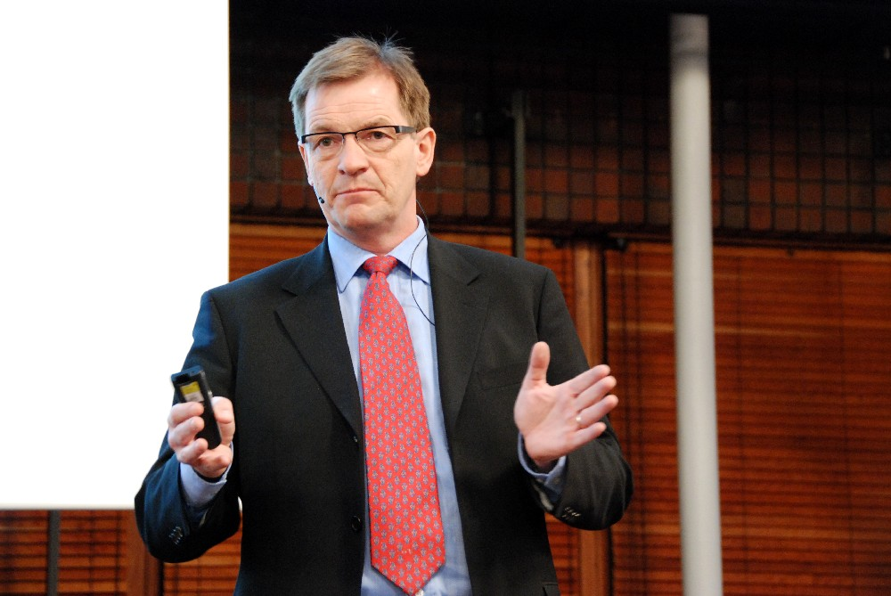 The former Danish Minister for Trade and Industry Bendt Bendtsen